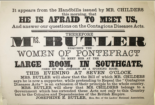 Notice of a public meeting issued by Josephine Butler during the Pontefract by-election, 1872